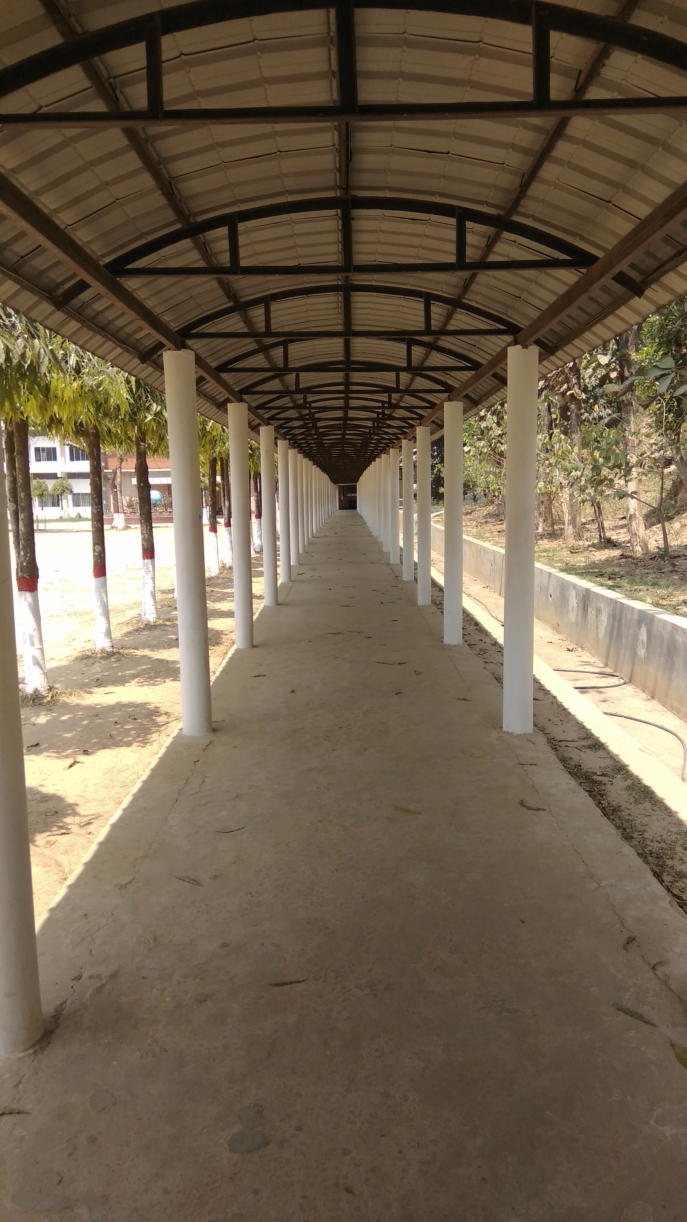 This is an image of a Corridor of Chittagong Cantonment Public College. The corridor connects the both college and school section with honors section. It is inside the College Campus and beside hills.